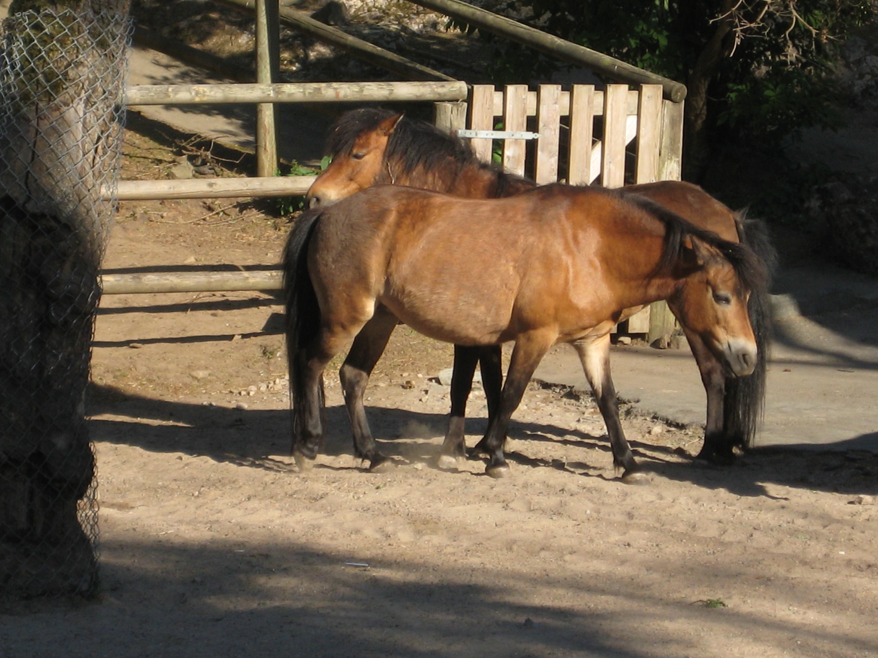 Gotland Pony